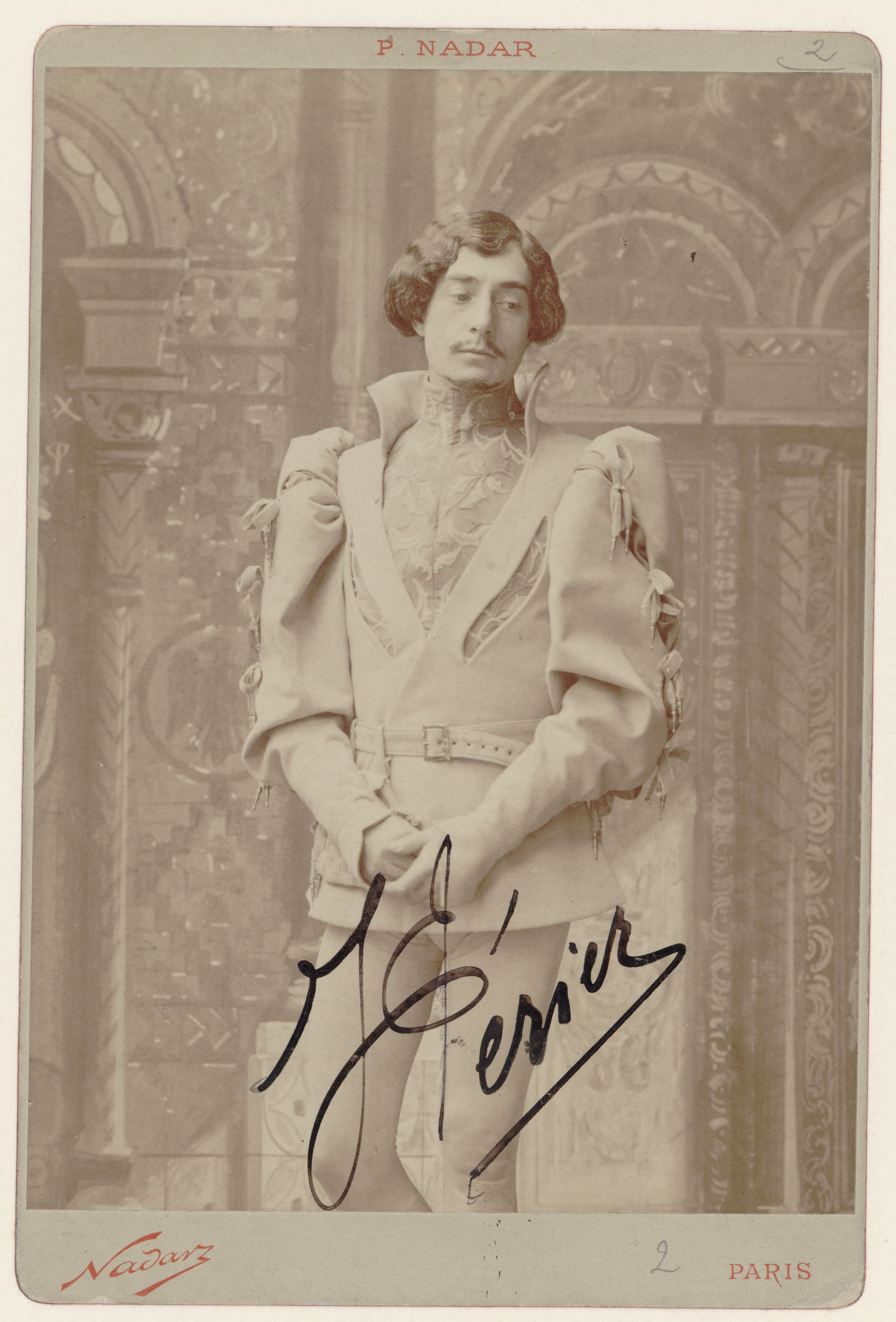 French operatic baritone Jean Périer (1869-1954) as Pelléas in Claude Debussy's Pelléas et Mélisande.